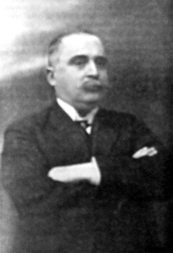 Portrait of Gheorghe Ghibănescu (1864 - 1936)